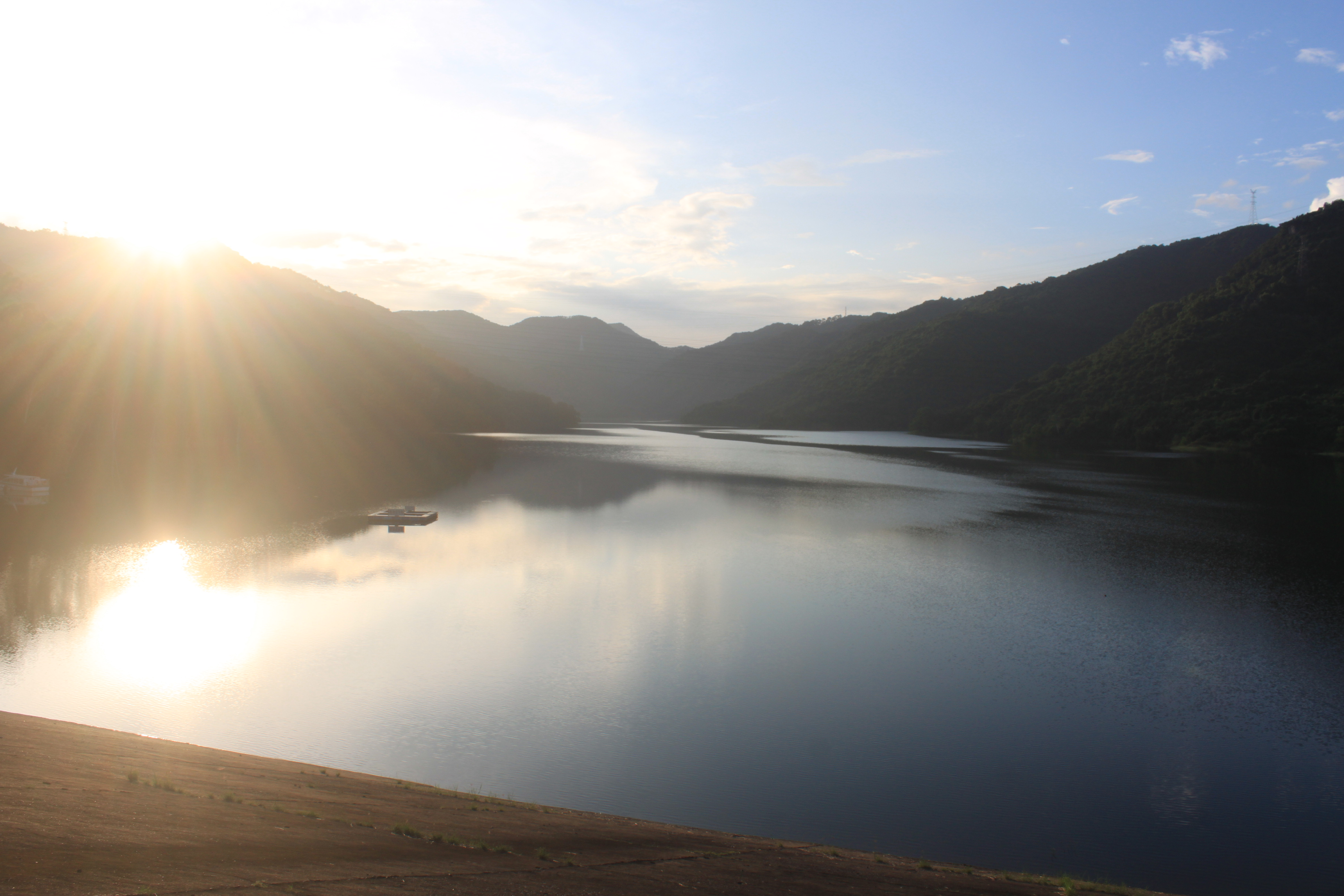 Meilin Reservoir at sunset. Meilin Reservoir is a large reservoir located in Futian District of Shenzhen, Guangdong, China. 中文（中国大陆）: 日落时分的梅林水库。梅林水库位于中国广东省深圳市福田区梅林路。